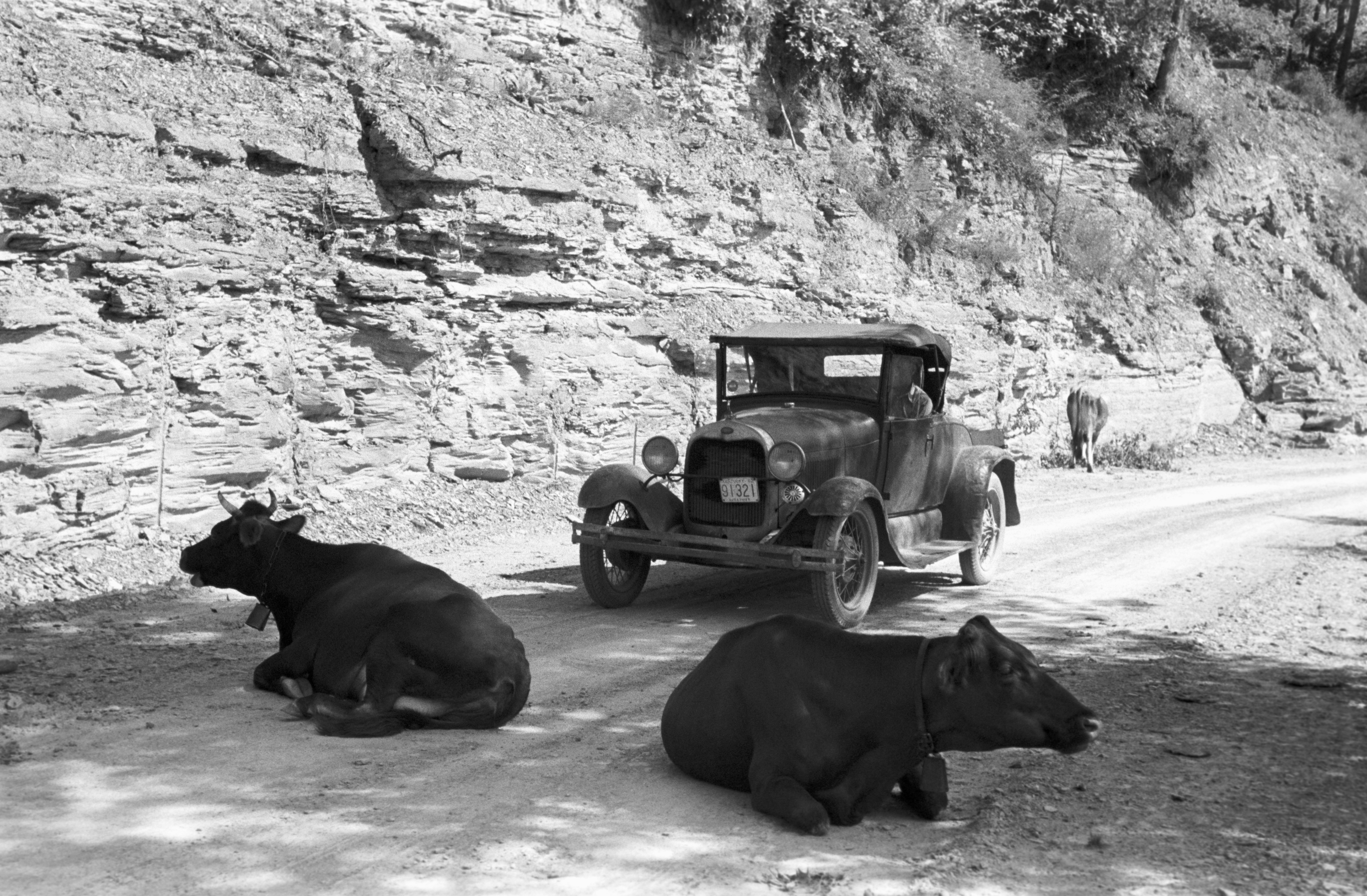 One of the hazards of driving over Kentucky mountain roads. Near Jackson, Breathitt County, Kentucky. 1 negative : nitrate ; 35 mm.